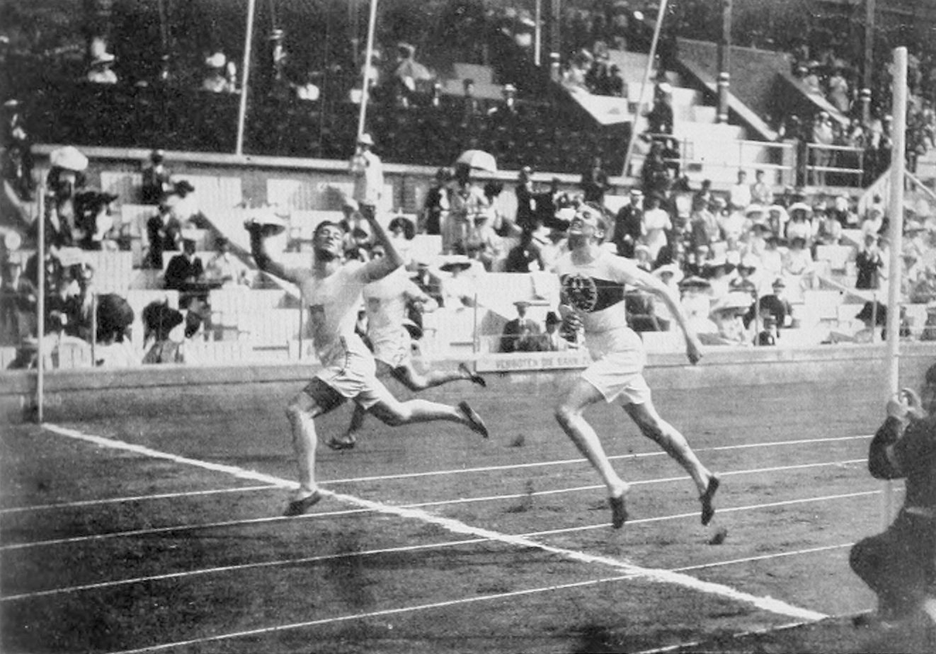 The finish of the men's 400 metre final at the 1912 Summer Olympics. Charles Reidpath (USA), Hanns Braun (GER), Edward Lindberg (USA)